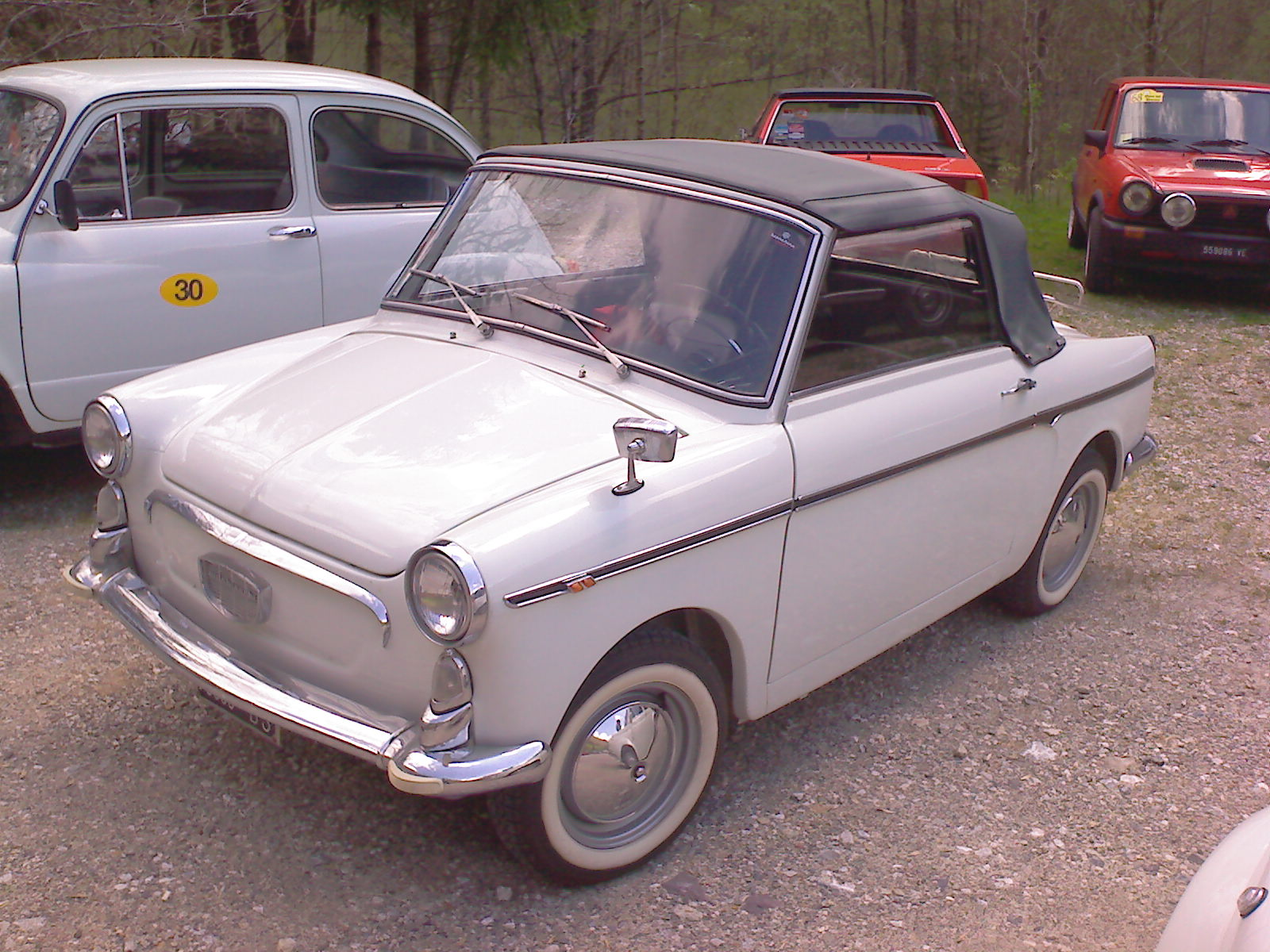 Autobianchi Bianchina Cabriolet. Picture taken at Daone (Trento, Italy), on 30 april 2009